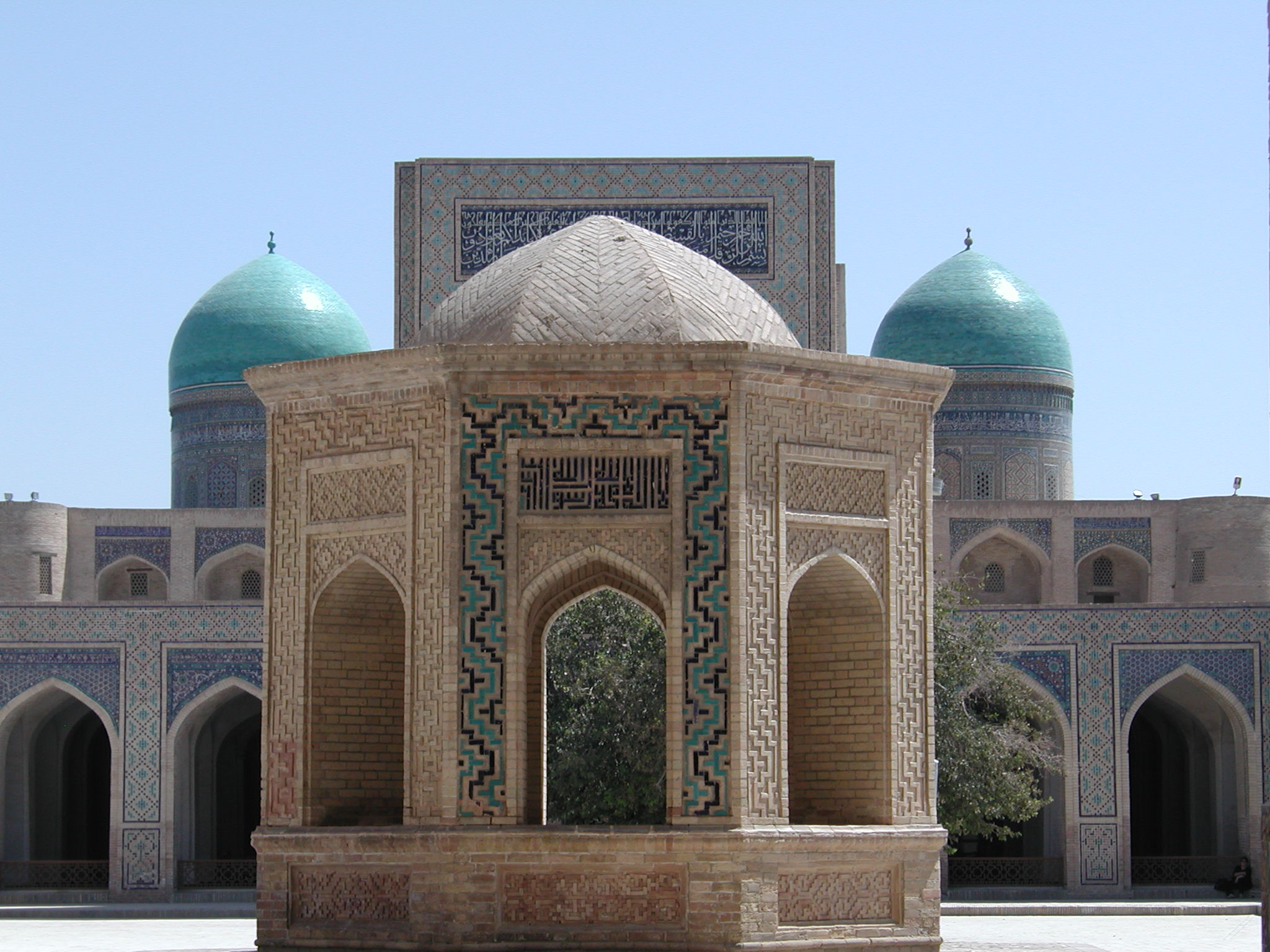 Şadirvan in the courtyard of the Kalyan Mosque (Po-i-Kalân Mosque) — in Bukhara, Uzbekistan.